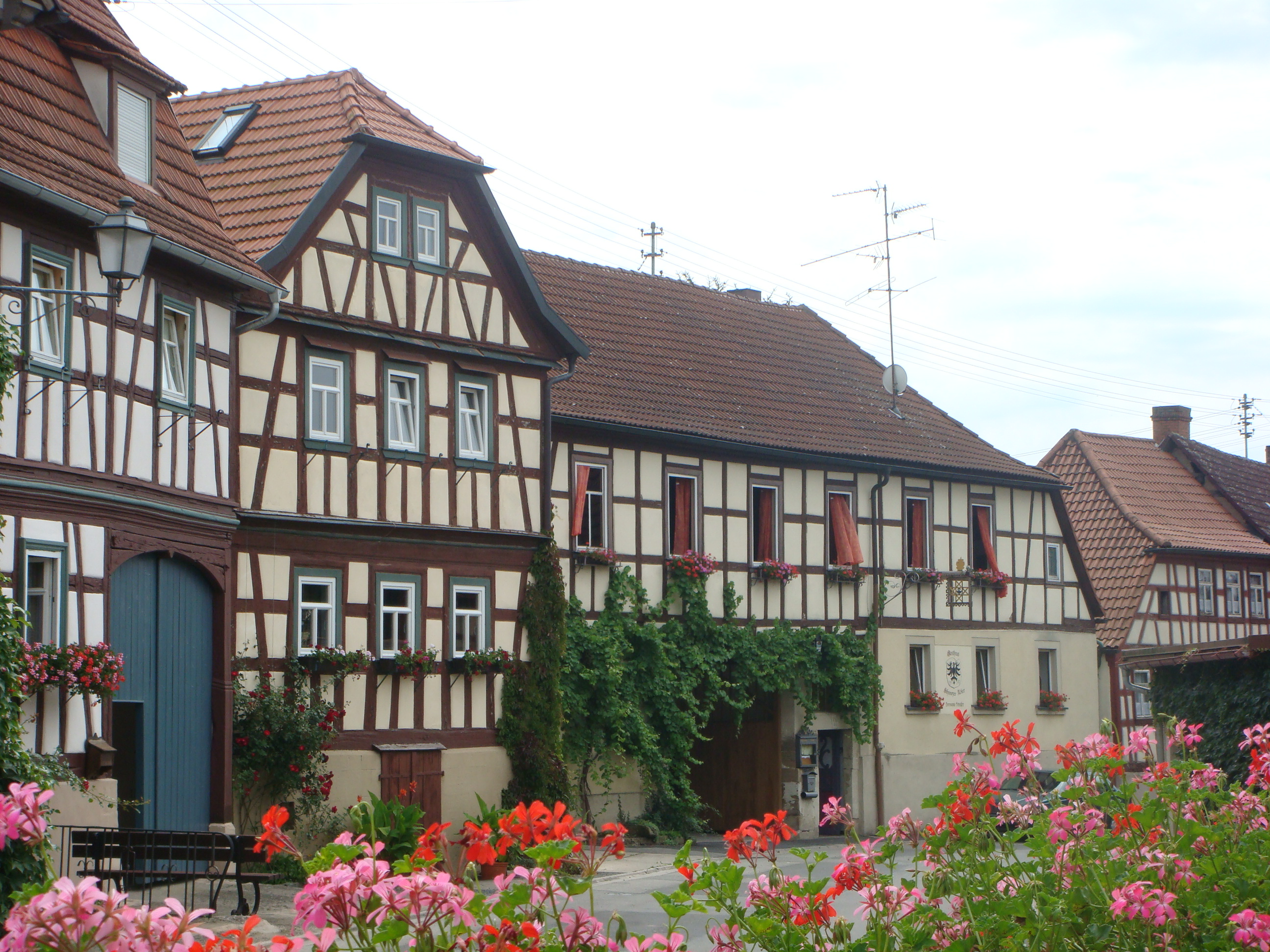 Timberframed houses in Königsberg-Unfinden, (Bavaria)